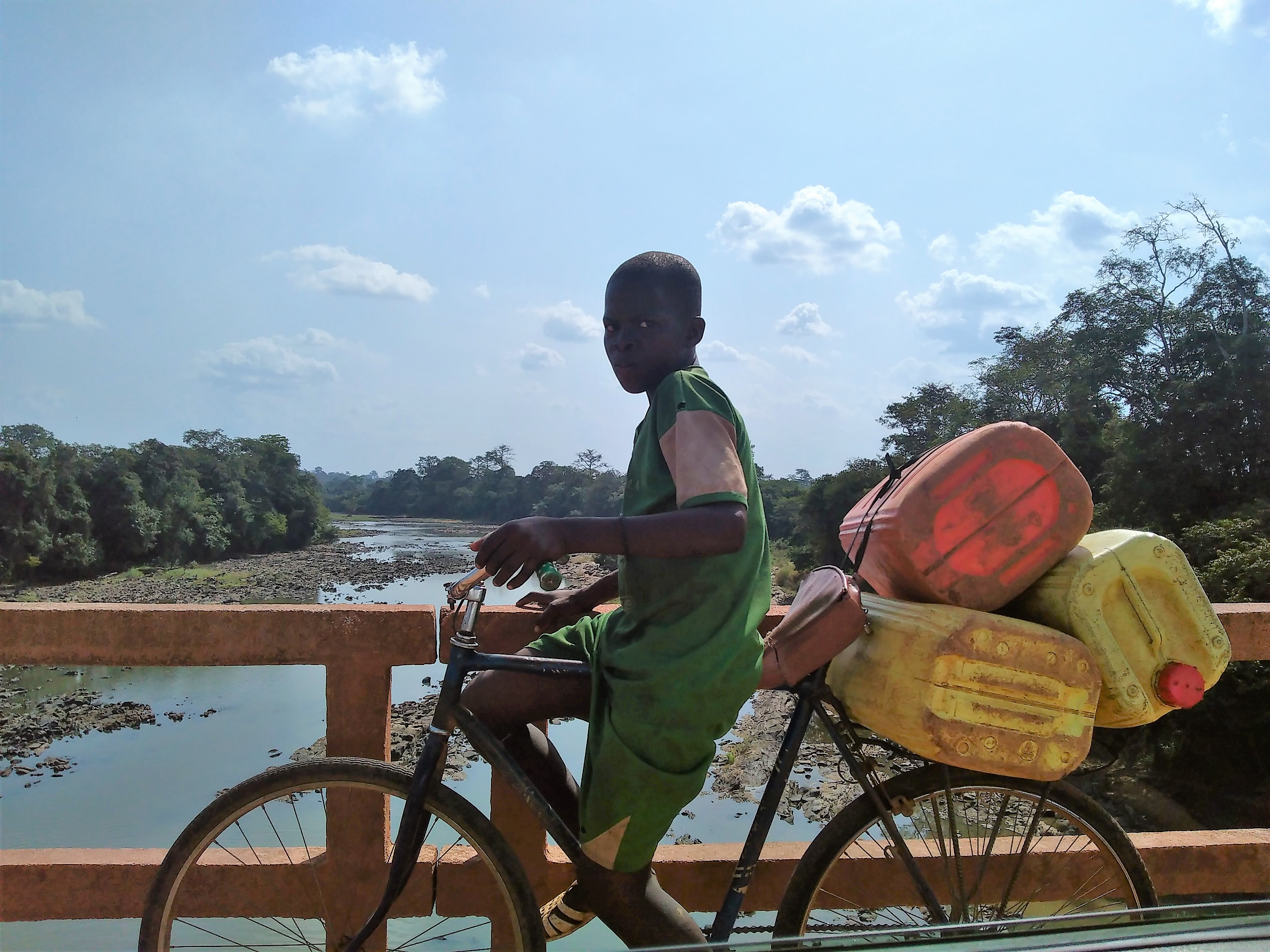 this boy is coming from the farm, and going to search water to carry home in his bicycle. met him on the Comoe River, close to Abengourou in Ivory Coast This is an image with the theme "Play" from: Ivory Coast